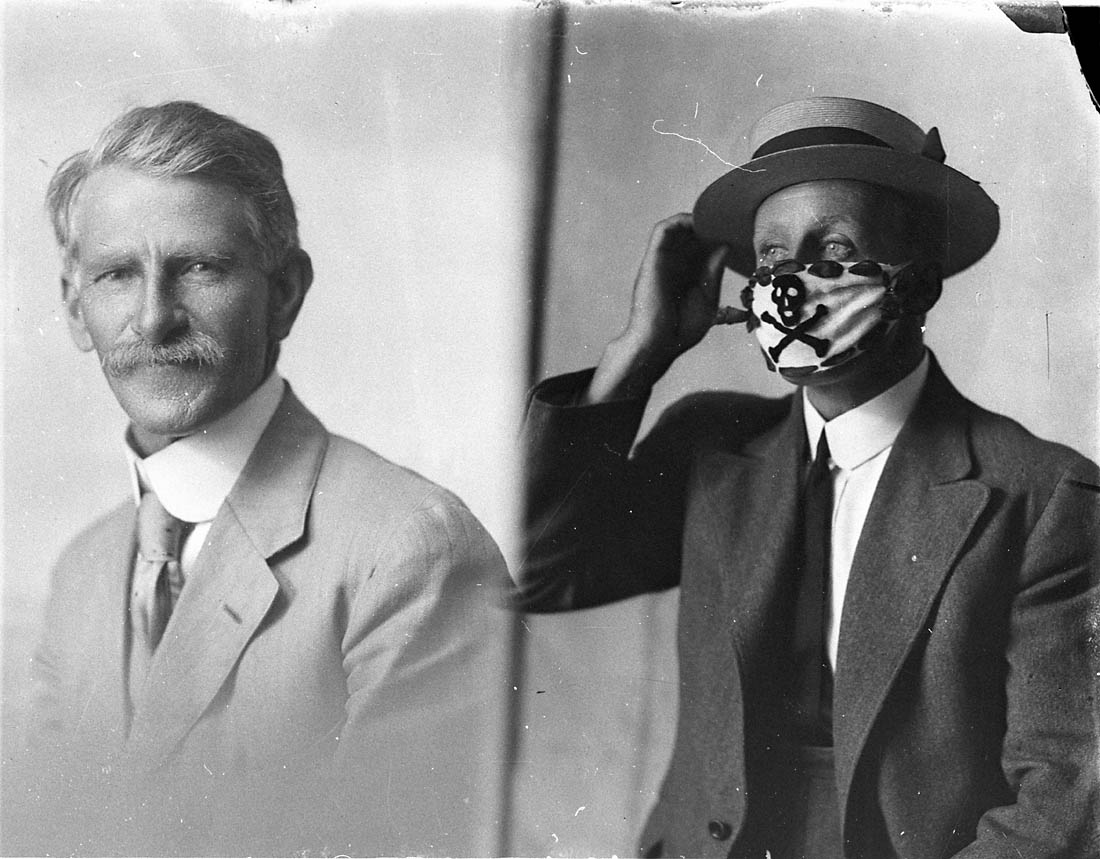 Note: The skull and crossbones on the mask was a joke, not part of the mask as issued, in an attempt to halt the disease. 12,000 died in Australia and between 20-100 million around the world, more than were killed in the War Format: Negative Notes: Find more detailed information about this photograph: Information about photographic collections of the State Library of New South Wales: From the collection of the State Library of New South Wales